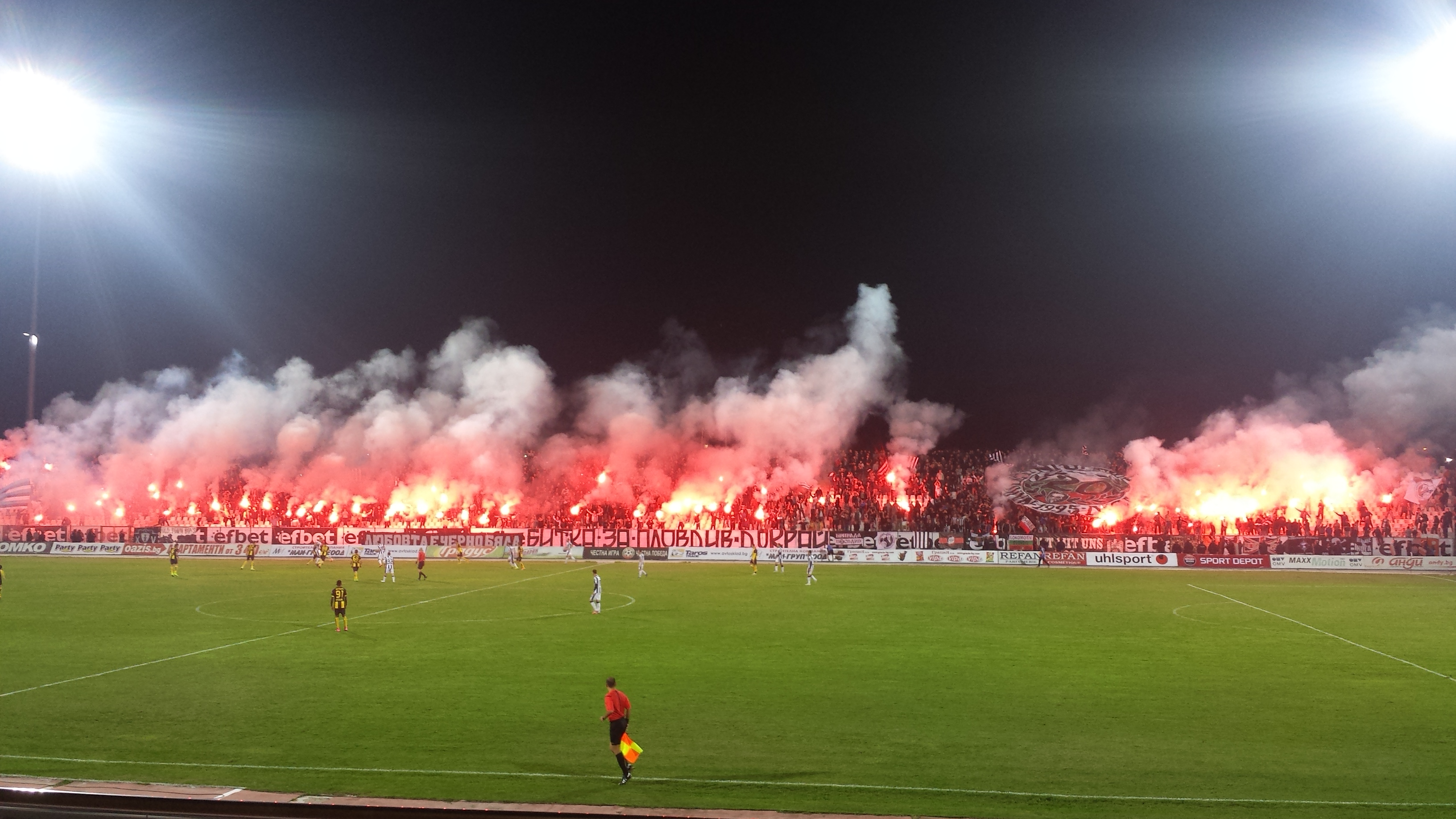 Loko Plovdiv supporters during derby match